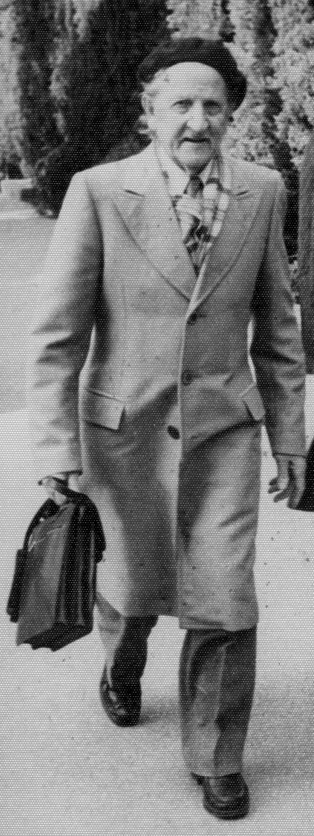 Picture of the artist Emilio Giuseppe Dossena strolling through Maiorca, 1982.